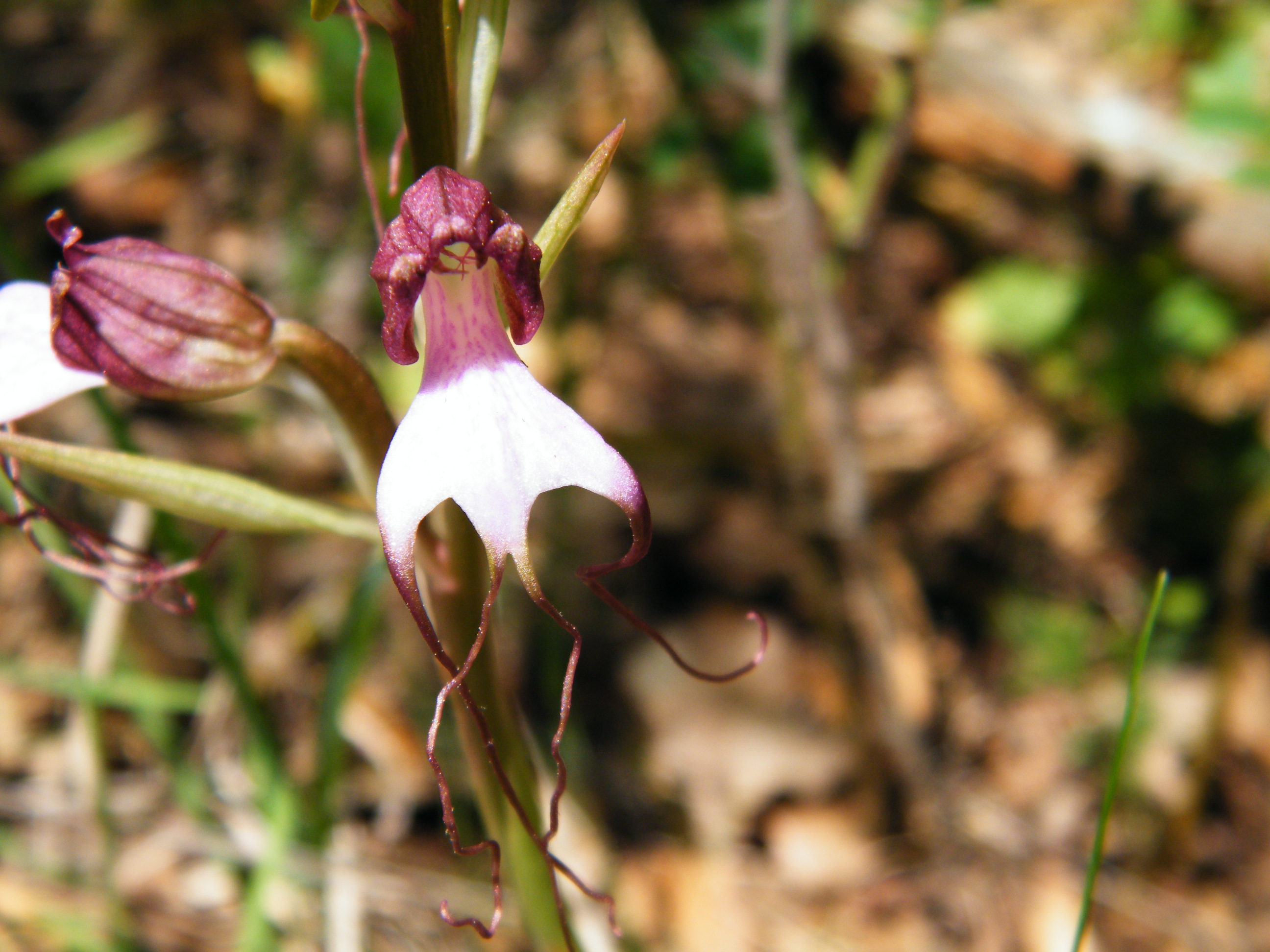 Comperia comperiana in Laspi Bay